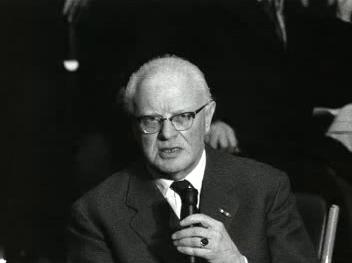 Carl Romme in 1959